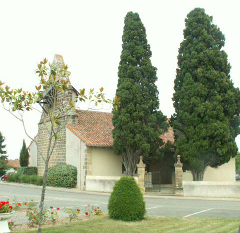 L'église de Montaut